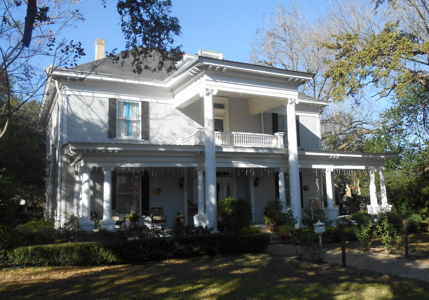 The C.B. Patton House was built in 1907 at 927 St. Lawrence St. in Gonzales, Texas in the Colonial Revival style.